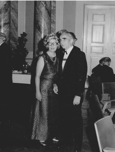 Dr. Konrad Wernicke